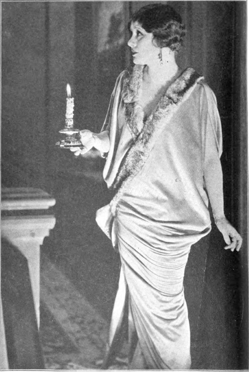 IRENE RICH AS MARIAN FORRESTER.